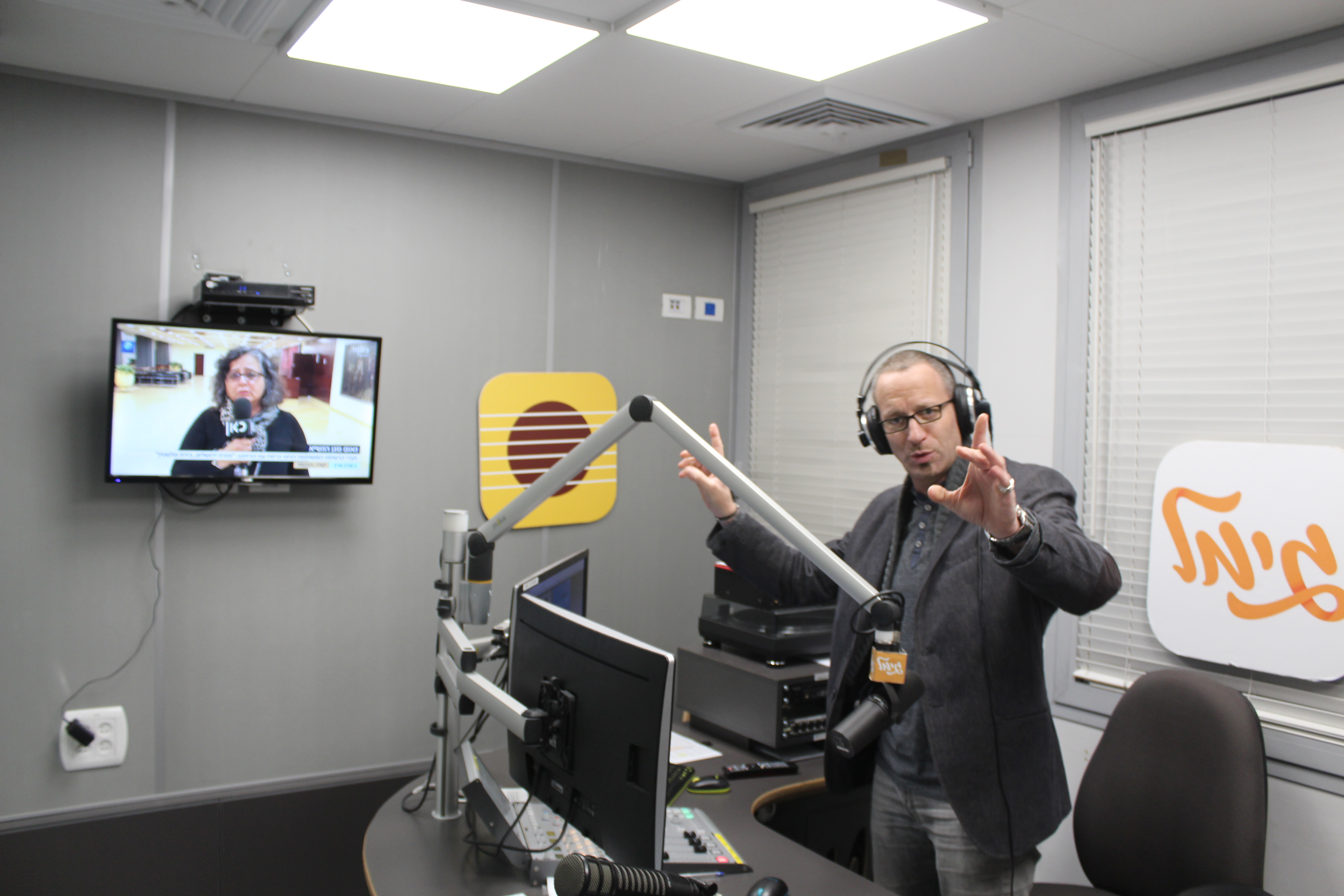 Control rooms of "Kan" radio studios, Israeli Broadcasting Corporation, Tel Aviv, Israel This image was taken as part of the Elef Millim project trip to the Israeli Public Broadcasting Corporation "Kan" offices and Control rooms, in Tel Aviv, in Israel which was held on Monday, 22 January 2018. To view all images uploaded as part of the Elef Millim Project